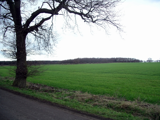 Tree and field at North Laithes Farm, Rufford, Nottinghamshire, England. Looking from the Robin Hood Way long distance footpath towards a small area of woodland, not named on the map. The Robin Hood Way is one of two long distance paths in Nottinghamshire, the other being the Trent Valley Way. This has been cited as a possible location for the lost village of Cratley.